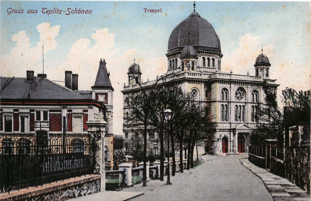 The Synagogue in Teplitz (1900 Postcard)